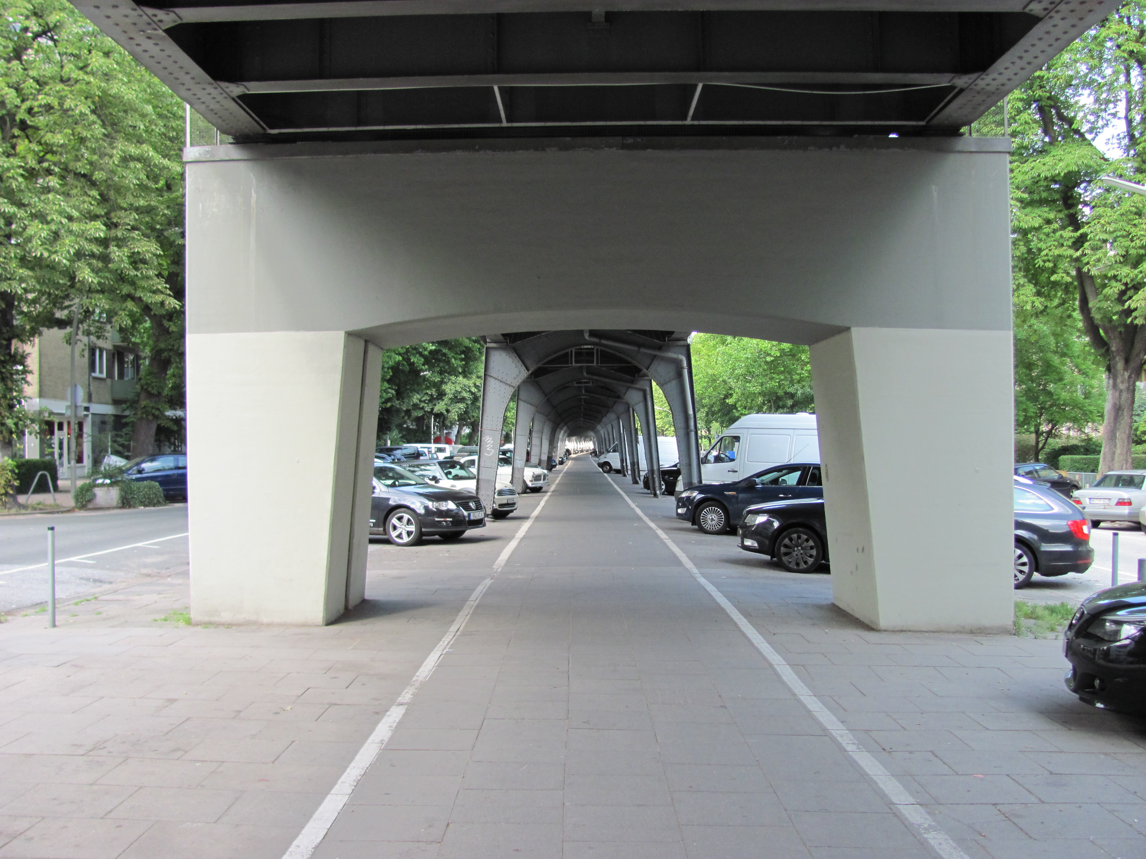 Isestraße, Hamburg-Harvestehude